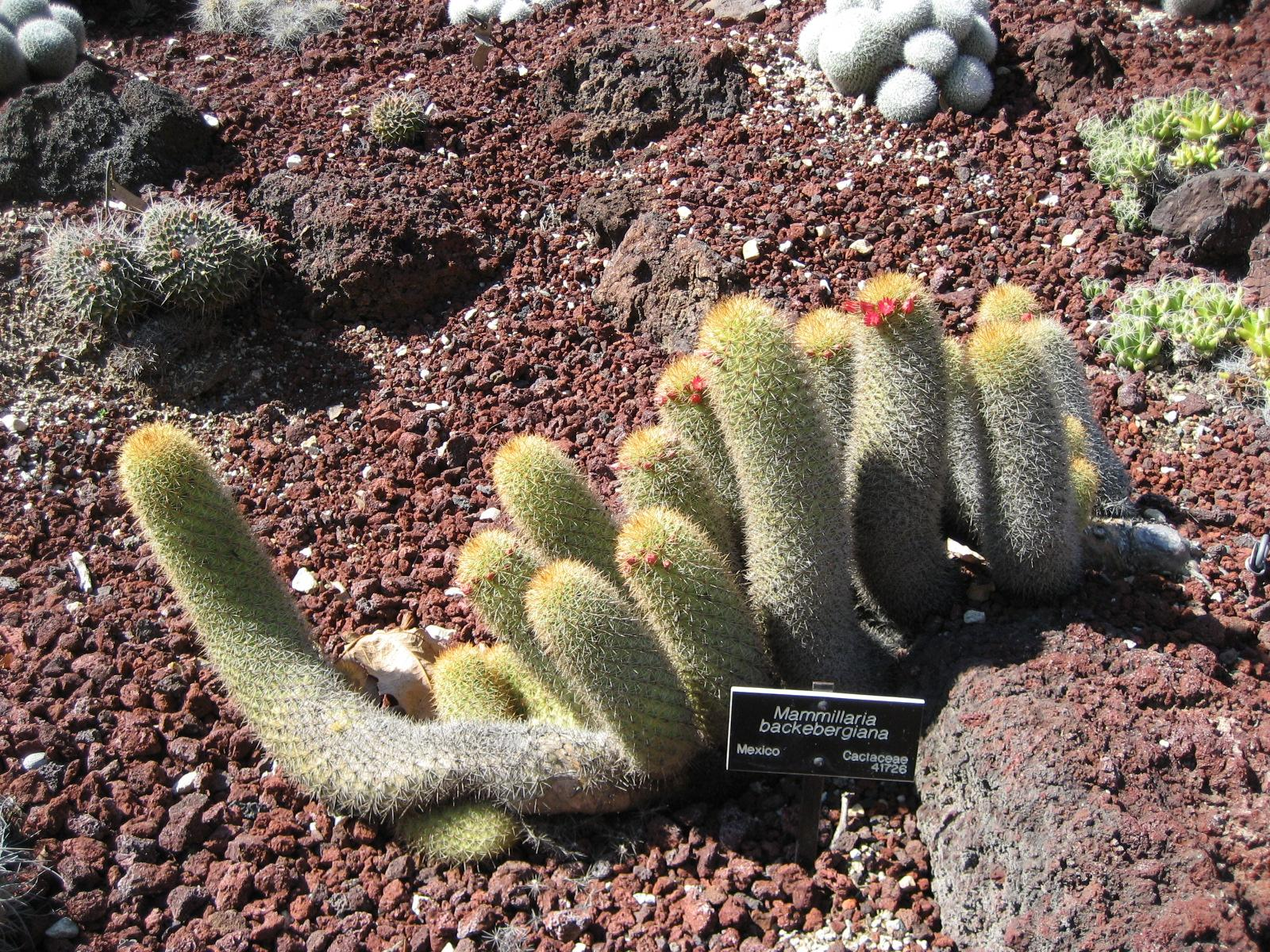 Photographed at Huntington Gardens (Los Angeles) in March